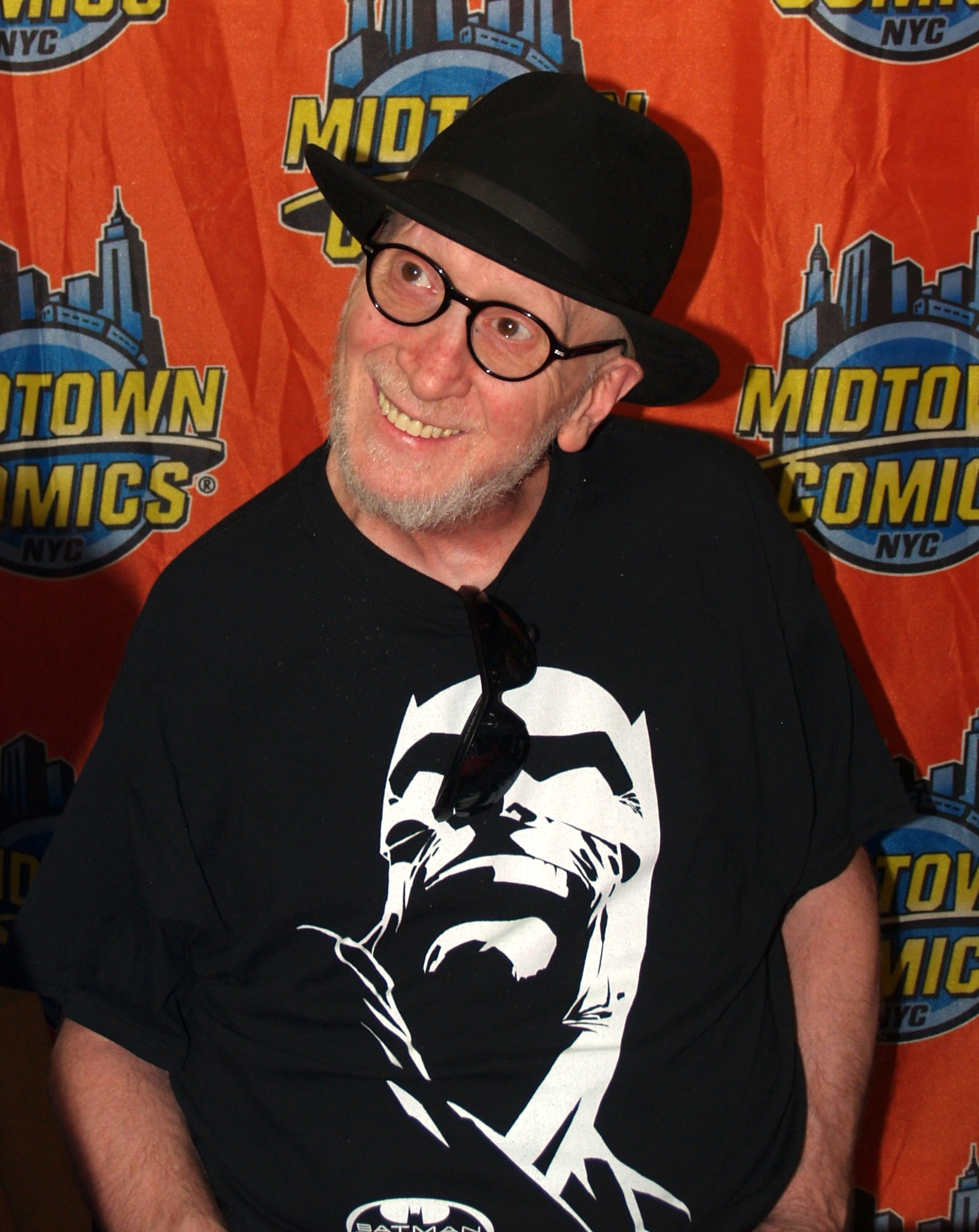 Comics writer/artist Frank Miller during an appearance at Midtown Comics Downtown September 17, 2016, the third annual Batman Day, when DC Comics celebrates the creation of the character Batman. This photo was created by Luigi Novi. It is not in the public domain, and use of this file outside of the licensing terms is a copyright violation.